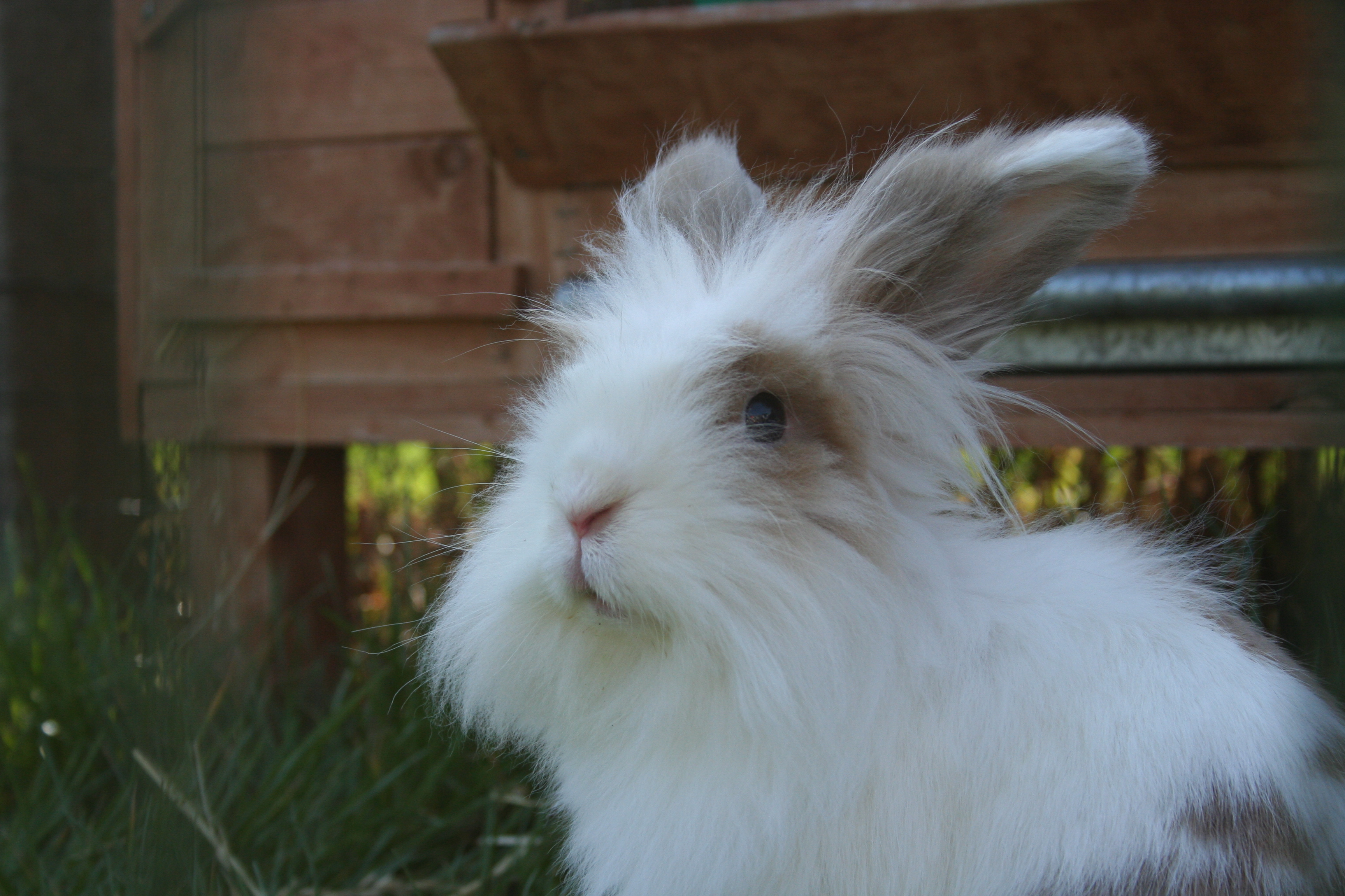 teddy rabbit